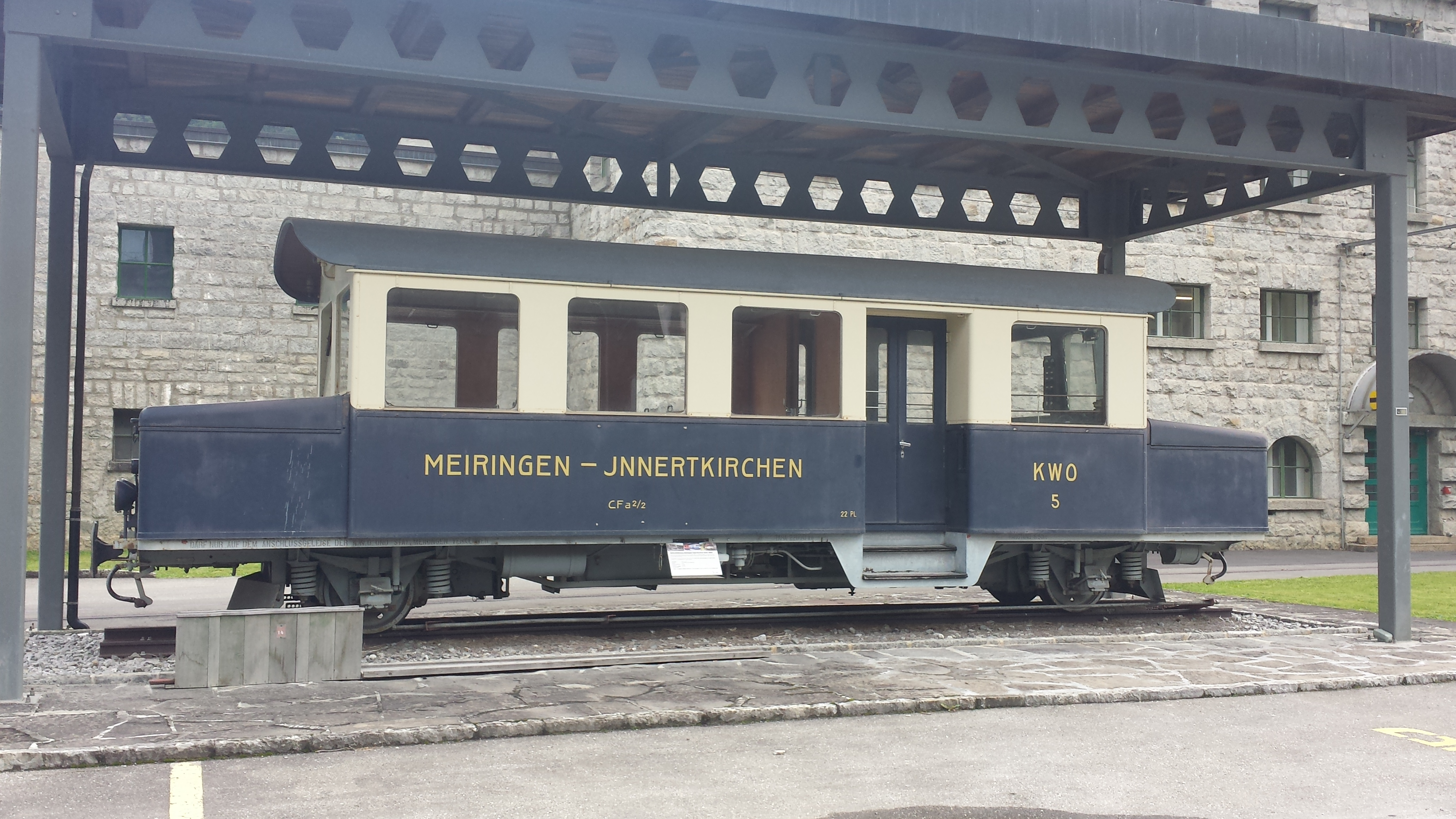 The former battery electric railcar 5 of the Meiringen-Innertkirchen-Bahn plinthed at Innerkirchen KWO